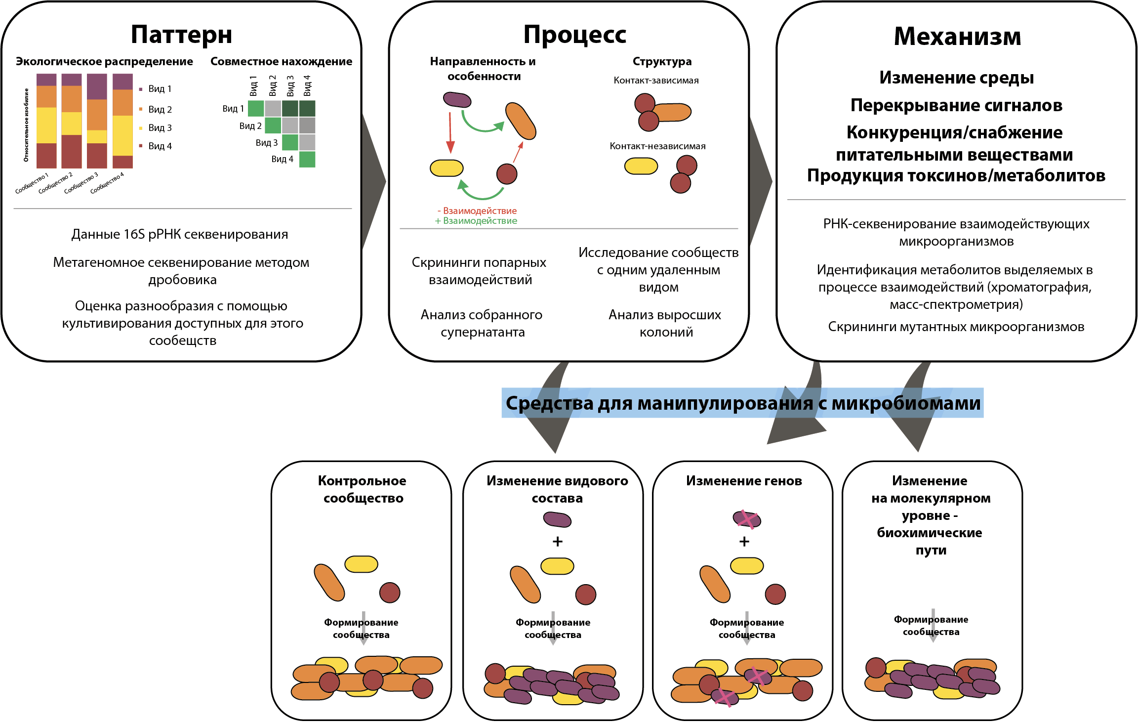 Данная схема демонстрирует способы изучения взаимодействий между видами в микробиоме, существующие на данный момент